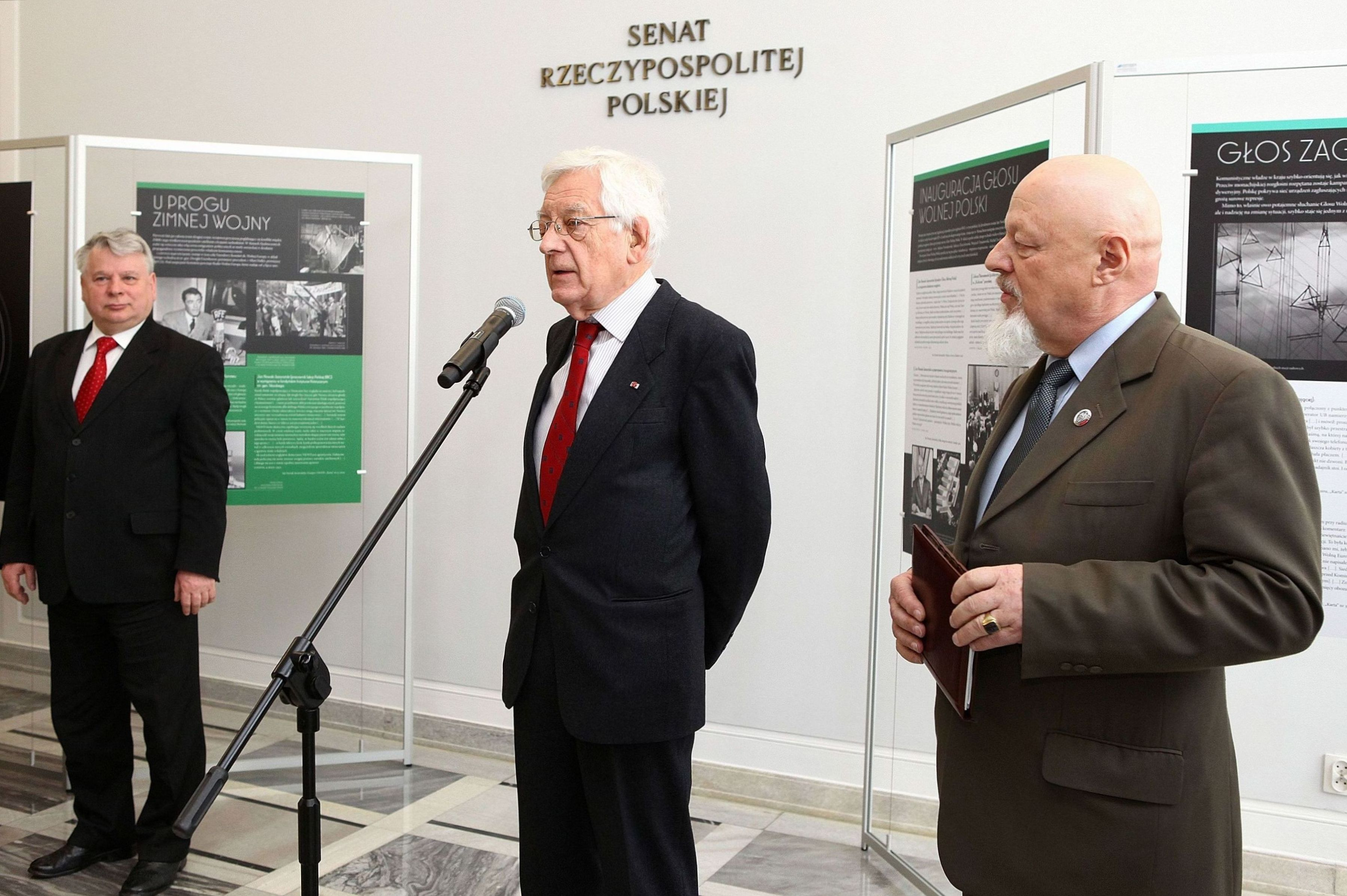 Zdzisław Najder at the opening ceremony of the "Voice of Free Europe" exhibition in the Polish Senate